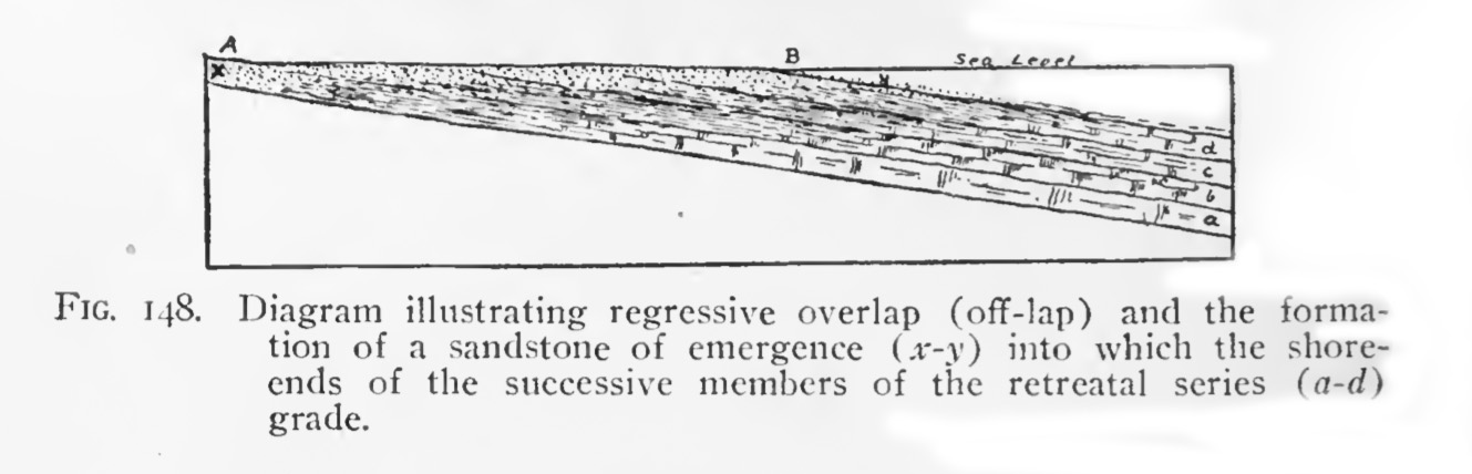 Grabeau's concept in this diagram was a clear precursor to the chronosome model